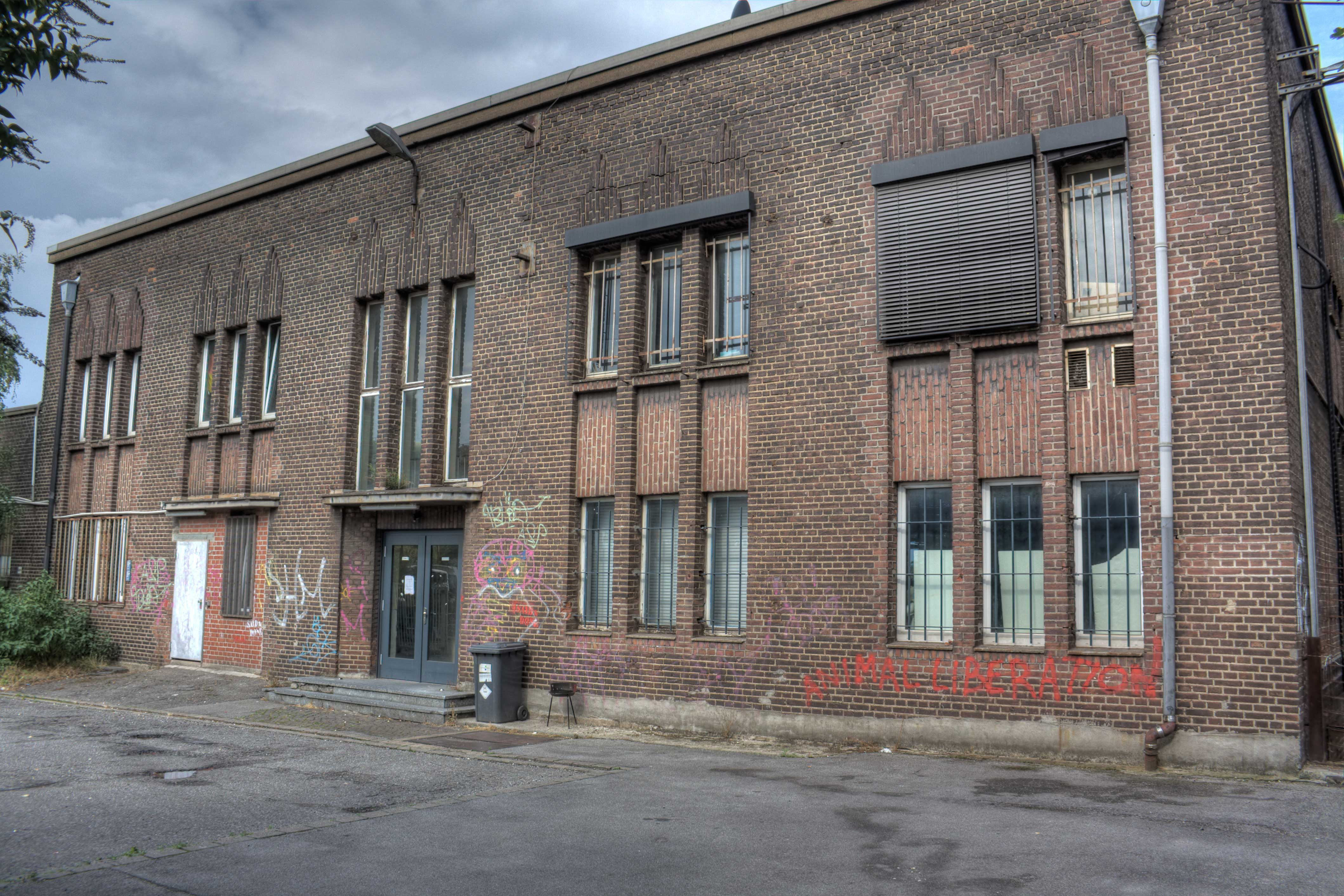 Compressor house of the former coal mine Westende